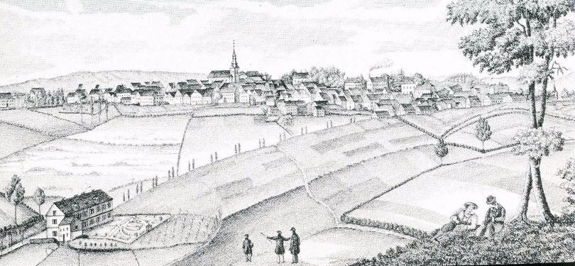 Lüdenscheid City at about 1800